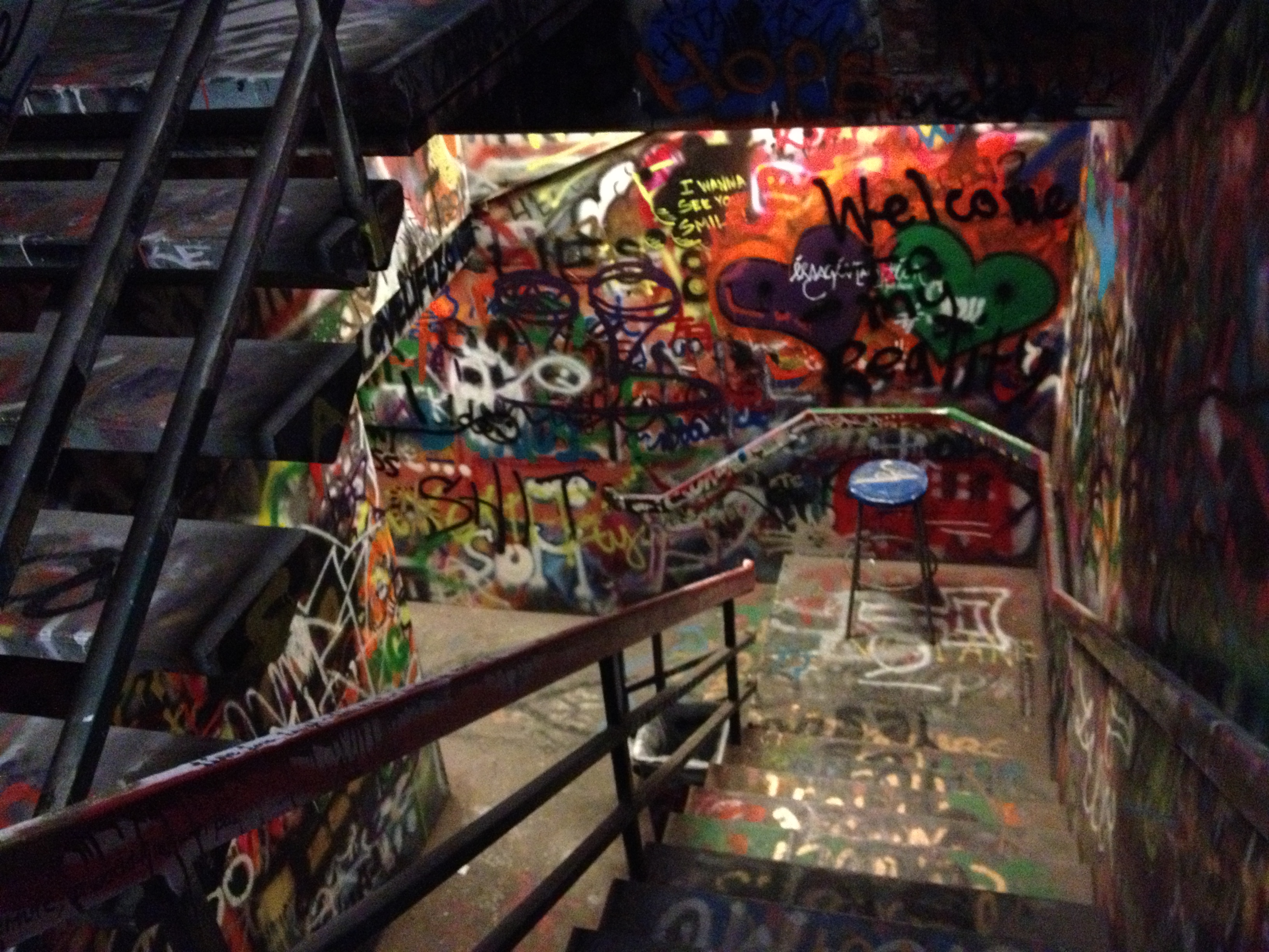 Graffiti Staircase, UCSD